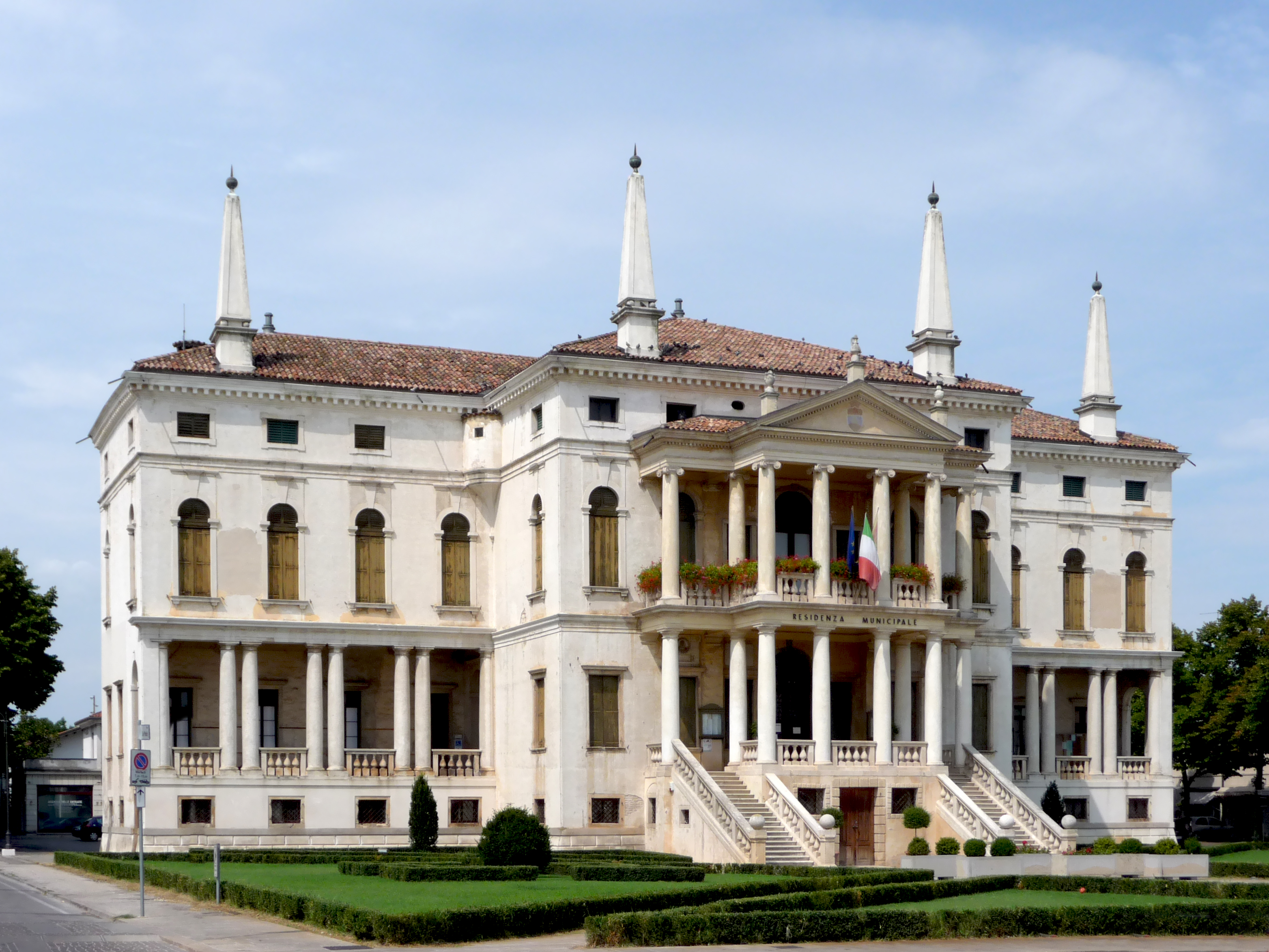 Villa Barbarigo in Noventa Vicentina, Province of Vicenza, Italy. Late 16th century.